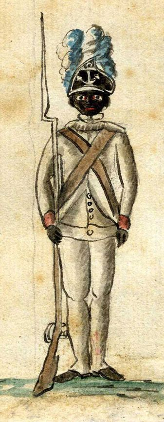 American soldiers at the siege of Yorktown, by Jean-Baptiste-Antoine DeVerger, watercolor, 1781